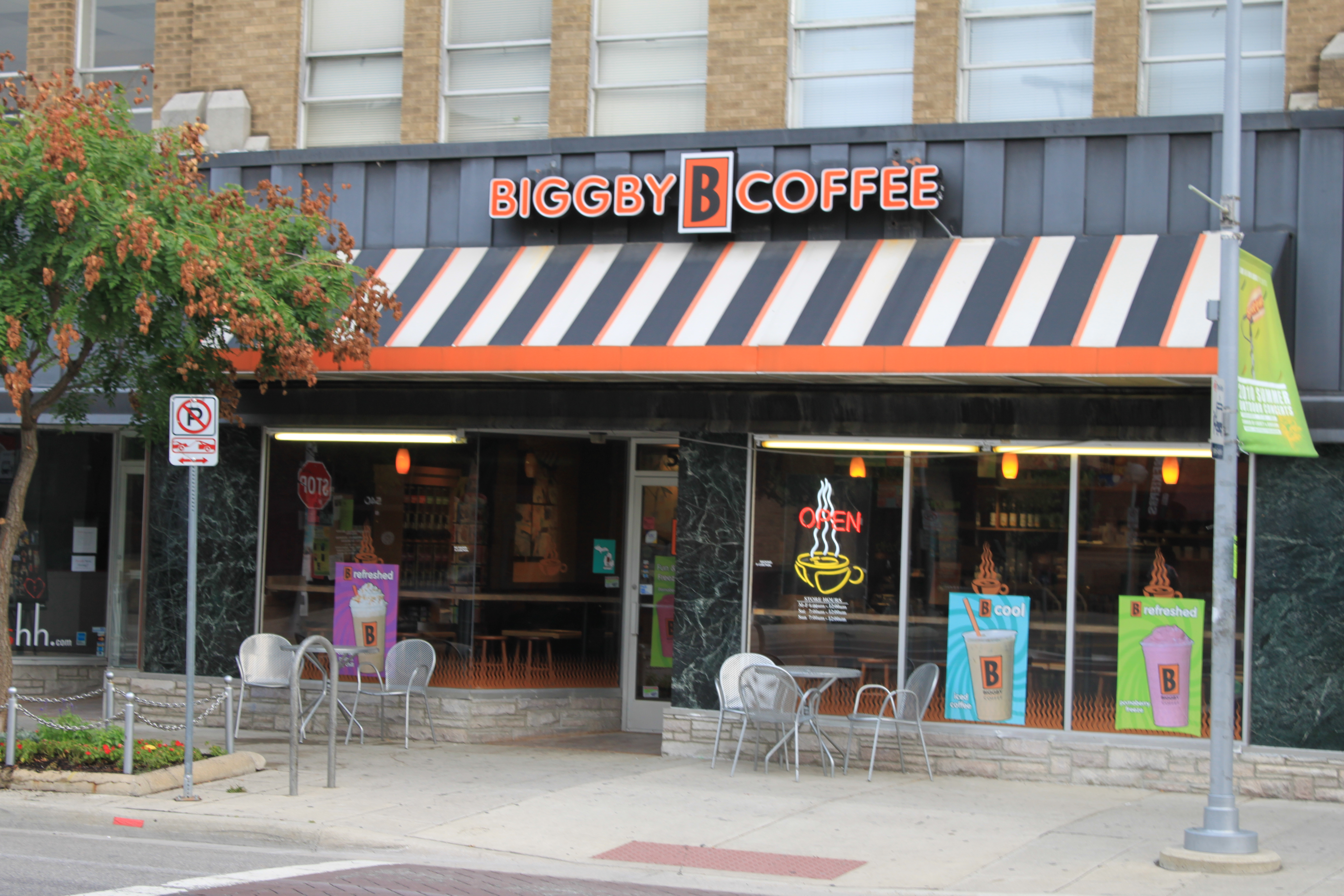 Biggby coffee shop, 539 E. Liberty, downtown Ann Arbor, Michigan